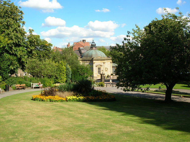 Pump Rooms Taken from the Valley gardens. The pump rooms still provide the opportunity to try Harrogate's famous sulphur water. The stream flowing through the valley gardens smells strongly of the sulphur water.